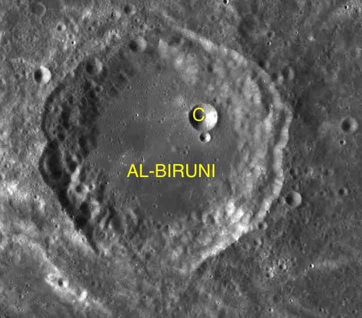 Part of the chart LAC-46 used for the presentation